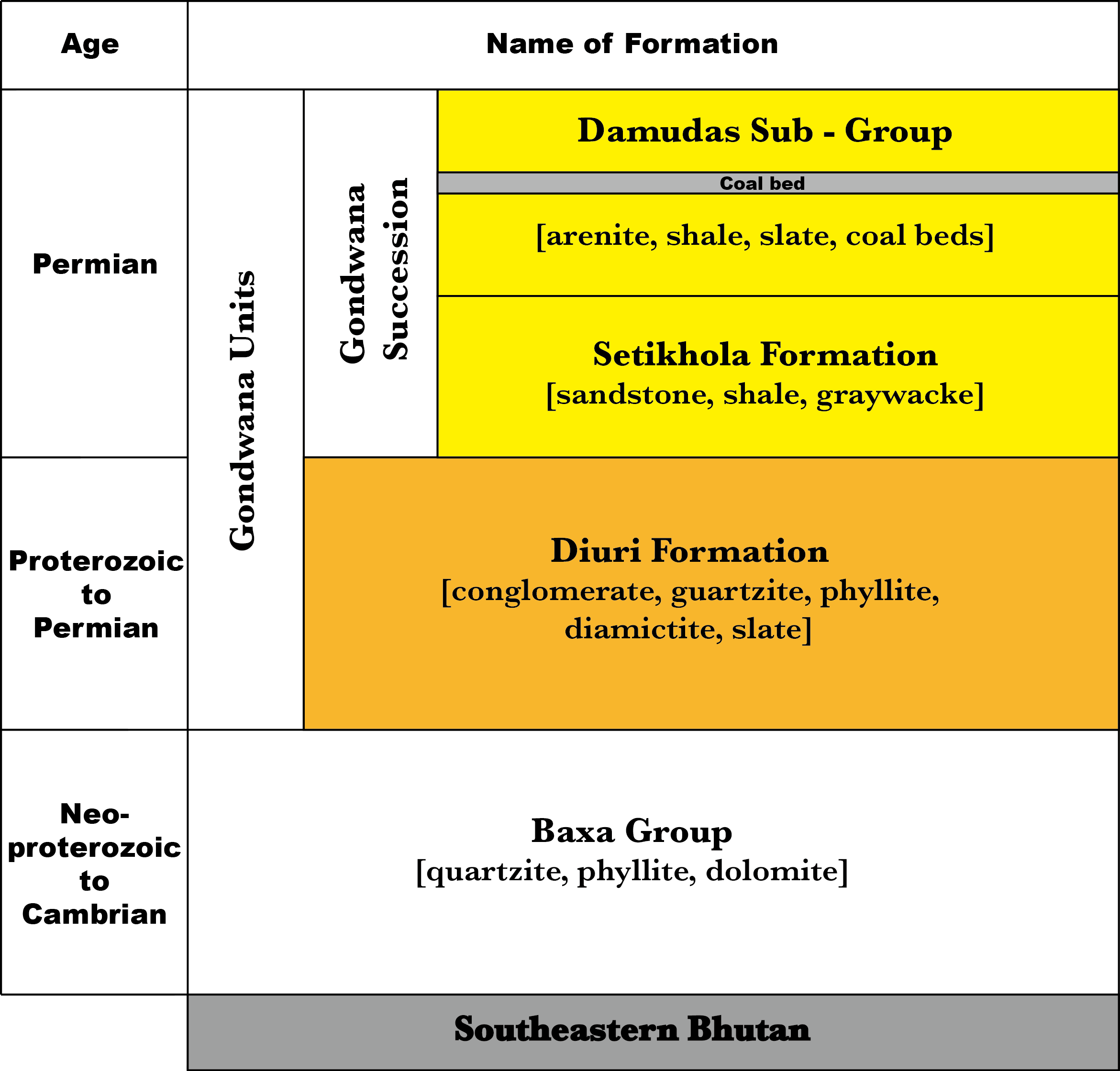 This stratigraphic column mainly focuses on the Gondwana Units of LHS in Southeastern Bhutan